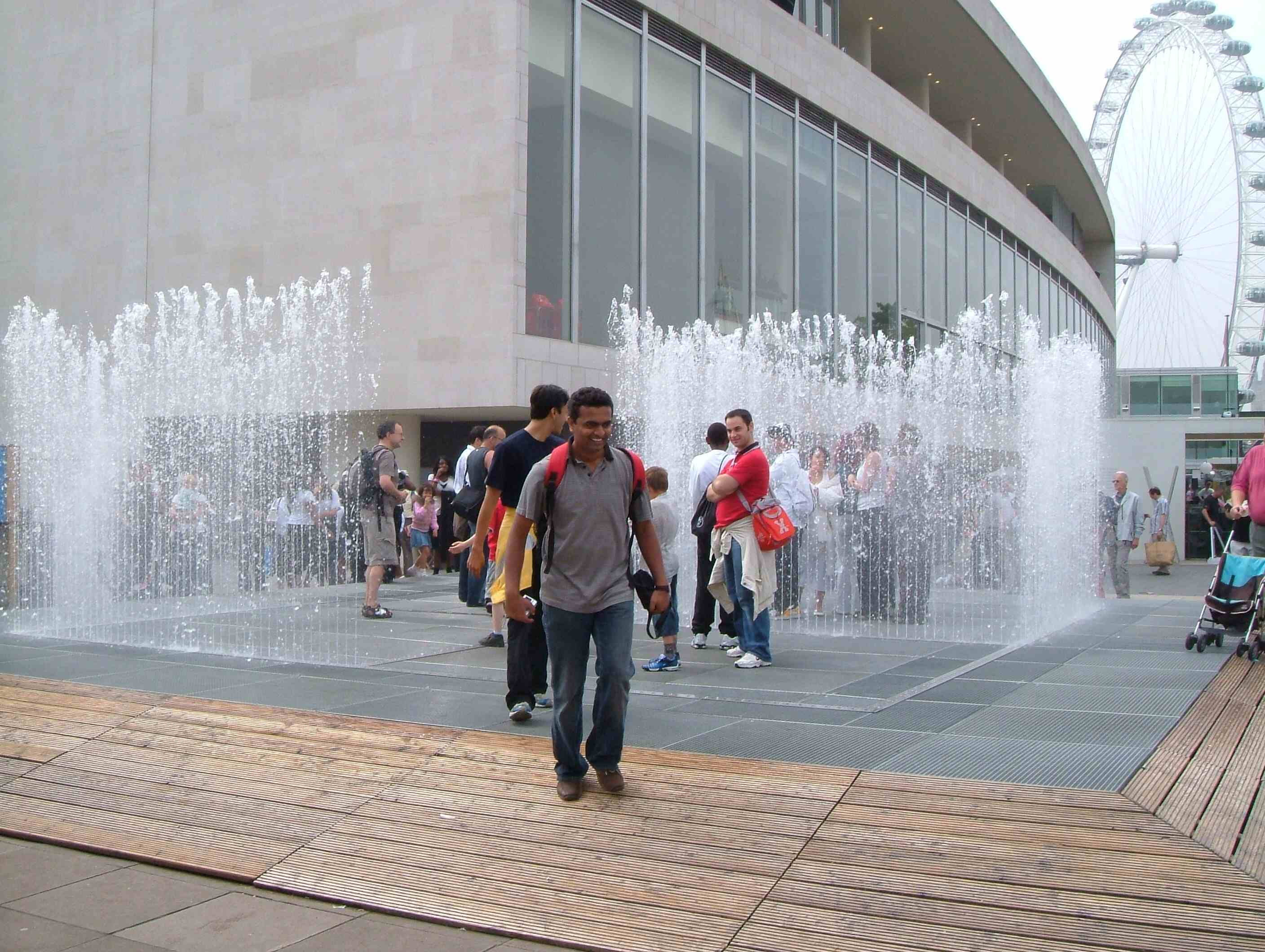 walk through fountains at the reopening of the Royal Festival Hall, Thames Embankment, London